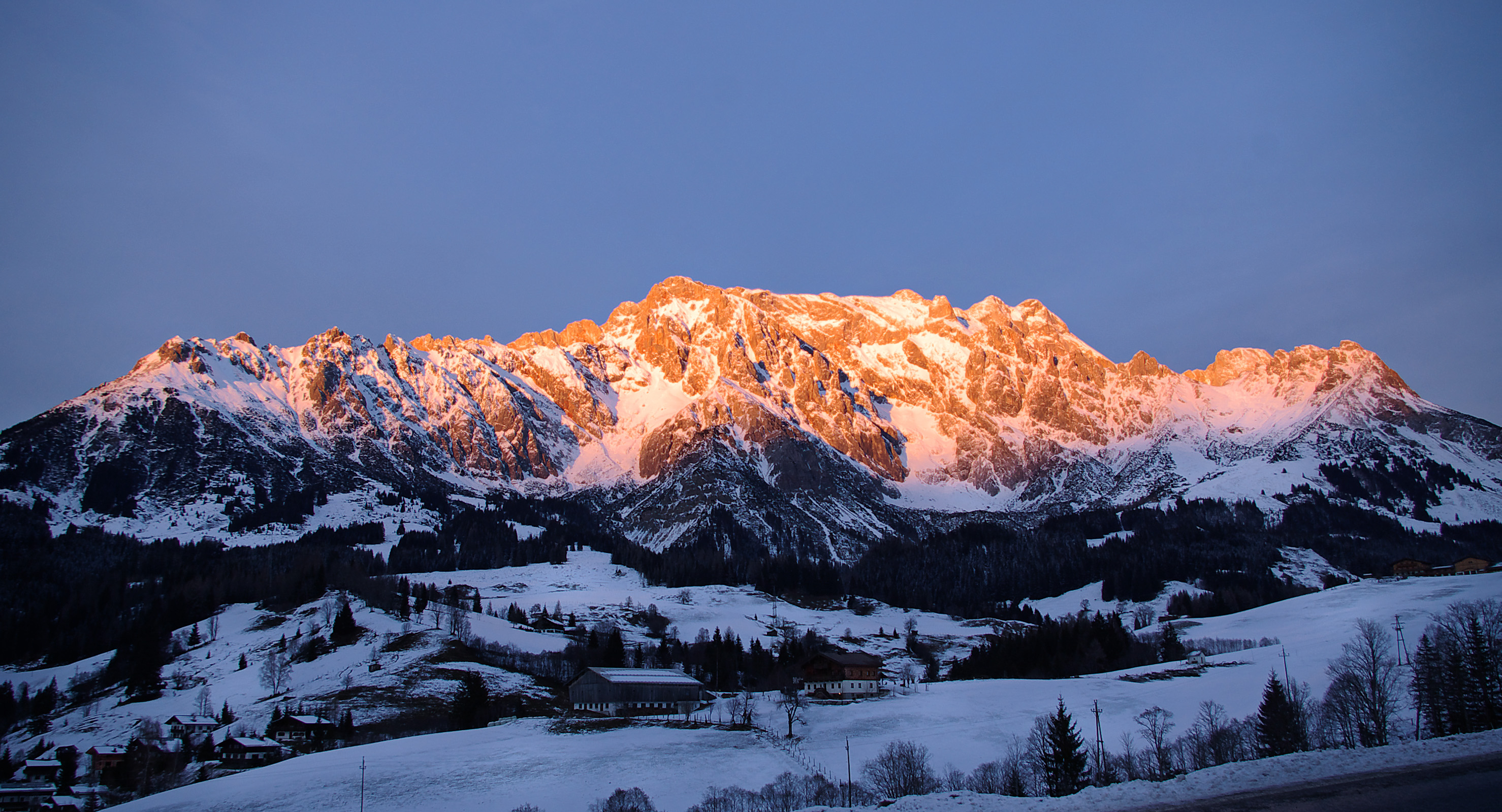 Late afternoon mountain glow on Hochkoenig mountain, taken from Dienten/Austria.